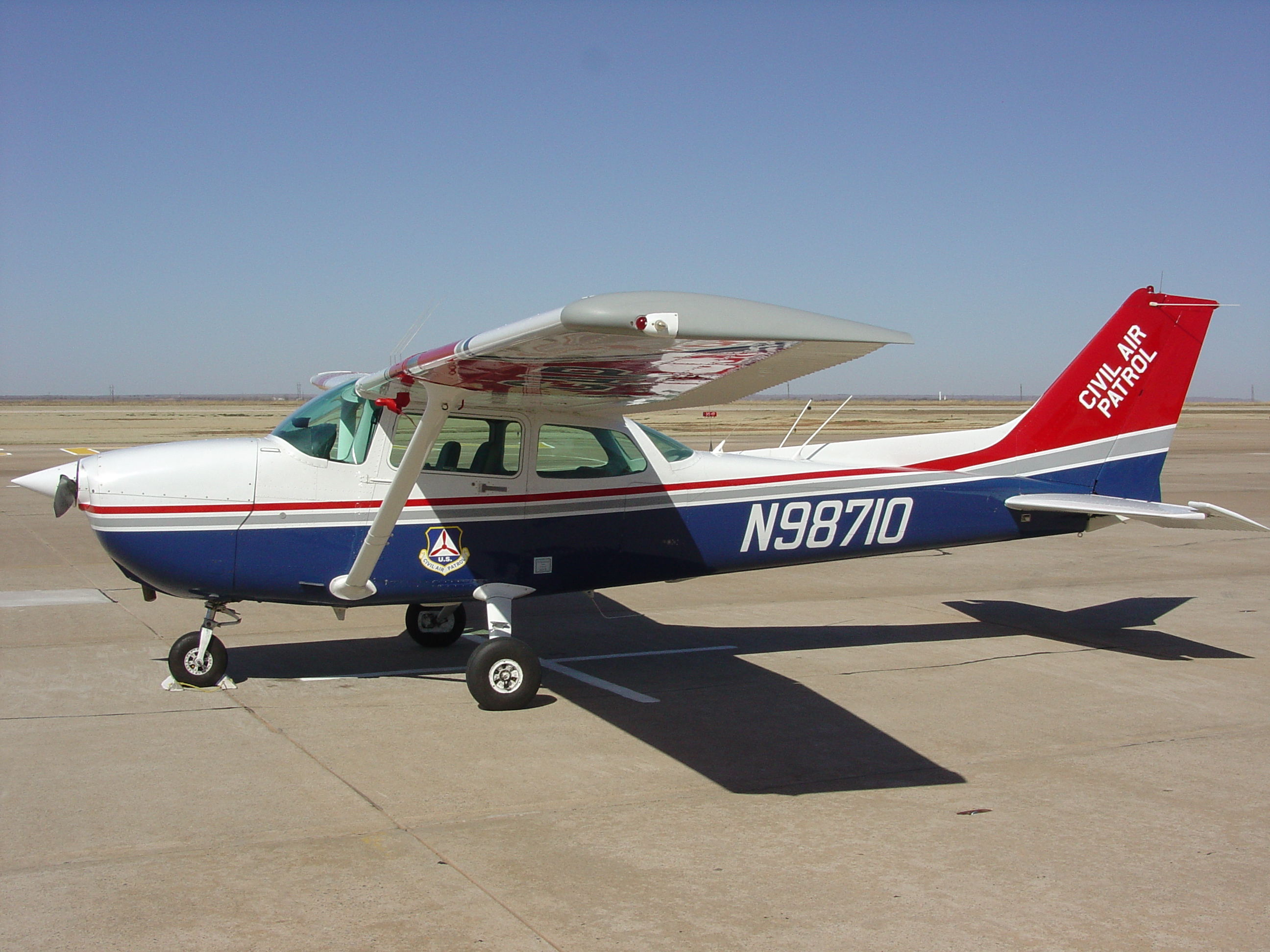 A Civil Air Patrol Cessna 172 aircraft sits next to the runway at the regional airport just north of Altus. The aircraft is used for search and rescue, emergency response and other Civil Air Patrol missions. FAA Registry